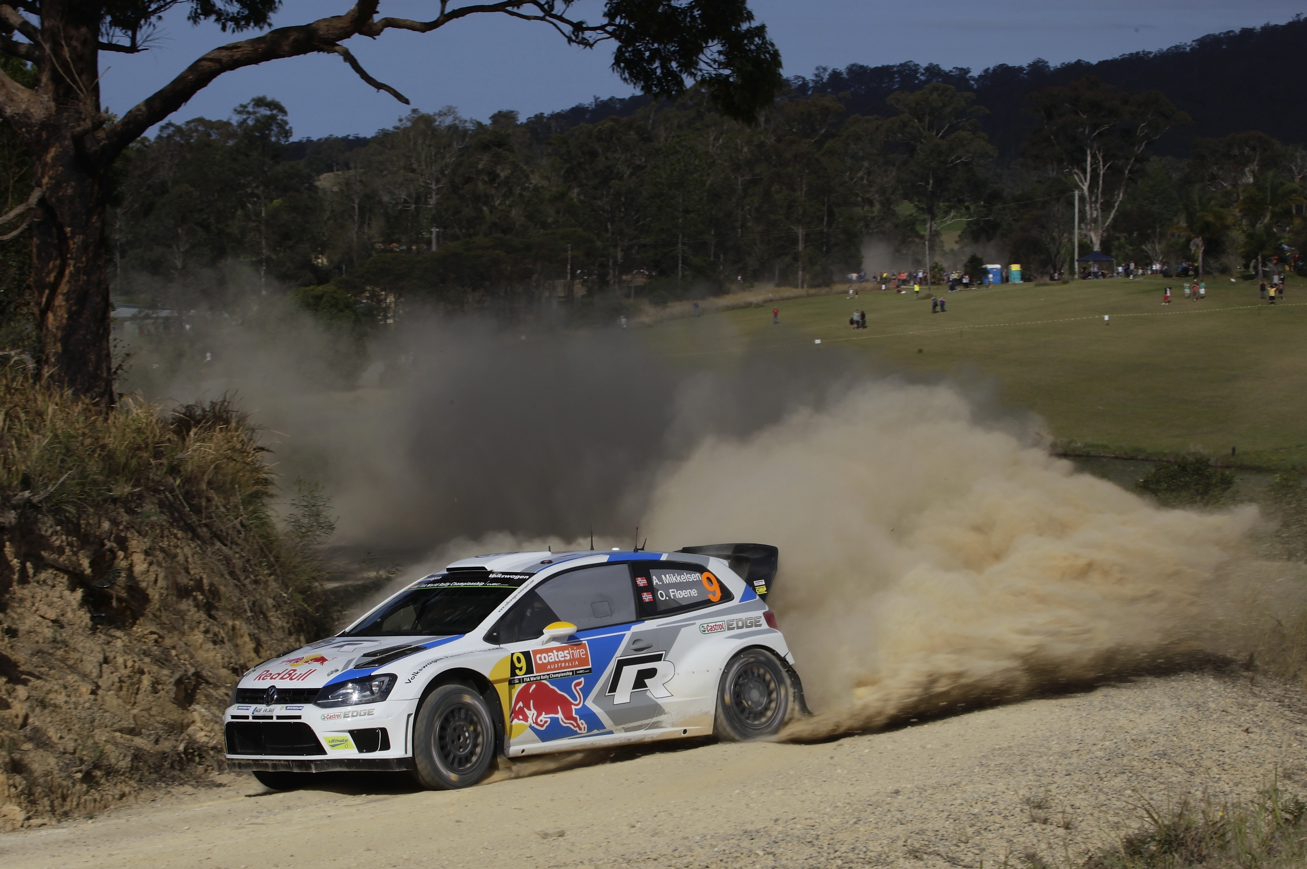 Andreas Mikkelsen and co-driver Ola Fløene in their Volkswagen Polo R WRC at the 2014 Rally Australia.